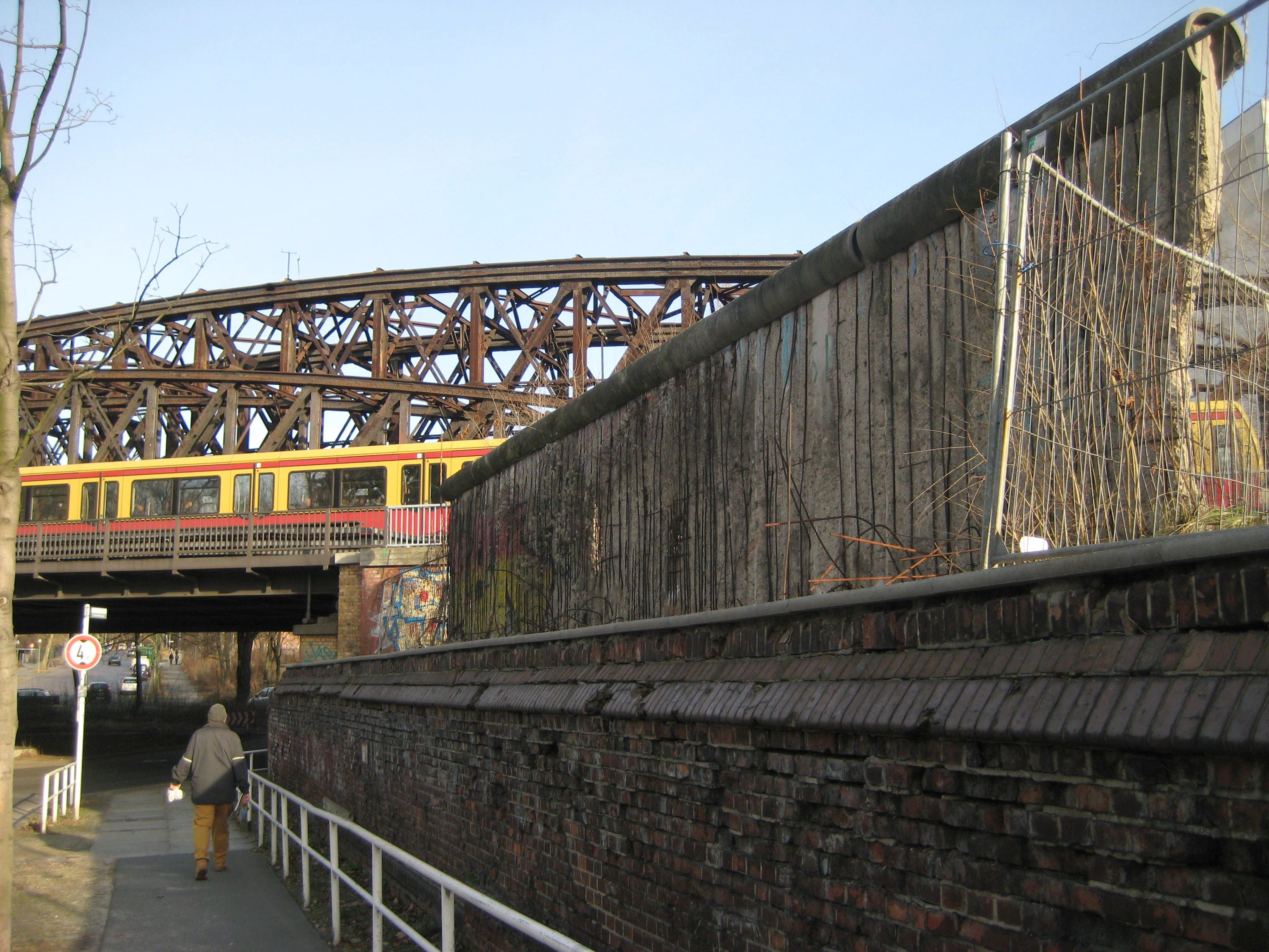 landmarked remnant of the Berlin Wall at Liesenstraße, border of Berlin-Mitte and Berlin-Wedding; this is the shortest of three remaining segments of the border wall